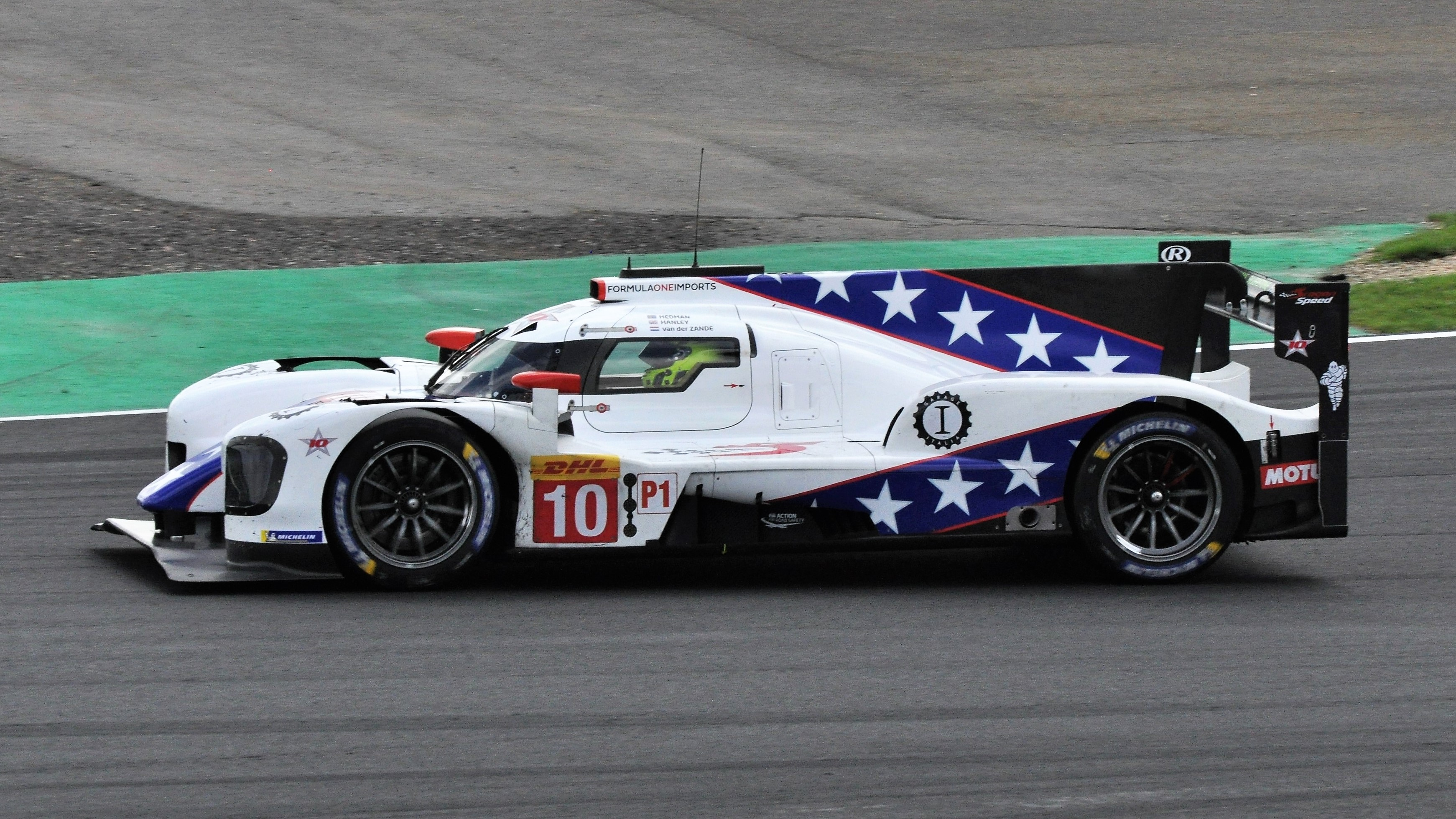 Dutch driver Renger van der Zande in the number 10 DragonSpeed-entered BR Engineering BR1, at Village corner during the 2018 6 Hours of Silverstone. Van der Zande and his co-drivers, Swedish driver Henrik Hedman and Brit Ben Hanley, finished last in the LMP1 class, 28 laps behind the winning car.